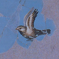 Depiction of an Italian Sparrow or relative in Pompeii's Garden room - House of the Golden Bracelet